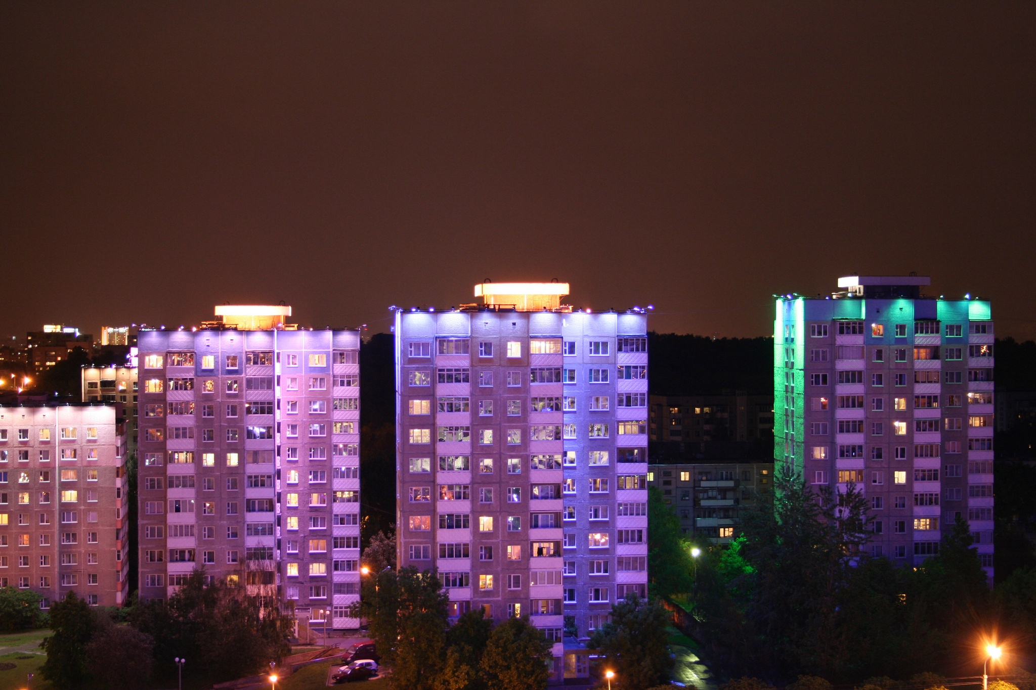 Houses in South-East part of Prytytski square. View from hotel "Orbit" Minsk, Belarus. Беларуская (тарашкевіца): Дамы ў паўднёва-ўсходняй частцы плошчы Прытыцкага. Від з гасьцініцы «Арбіта». Менск, Беларусь.